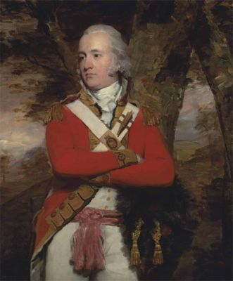 Portrait of Lieutenant-General Duncan Campbell, 8th of Lochnell (died 1837)